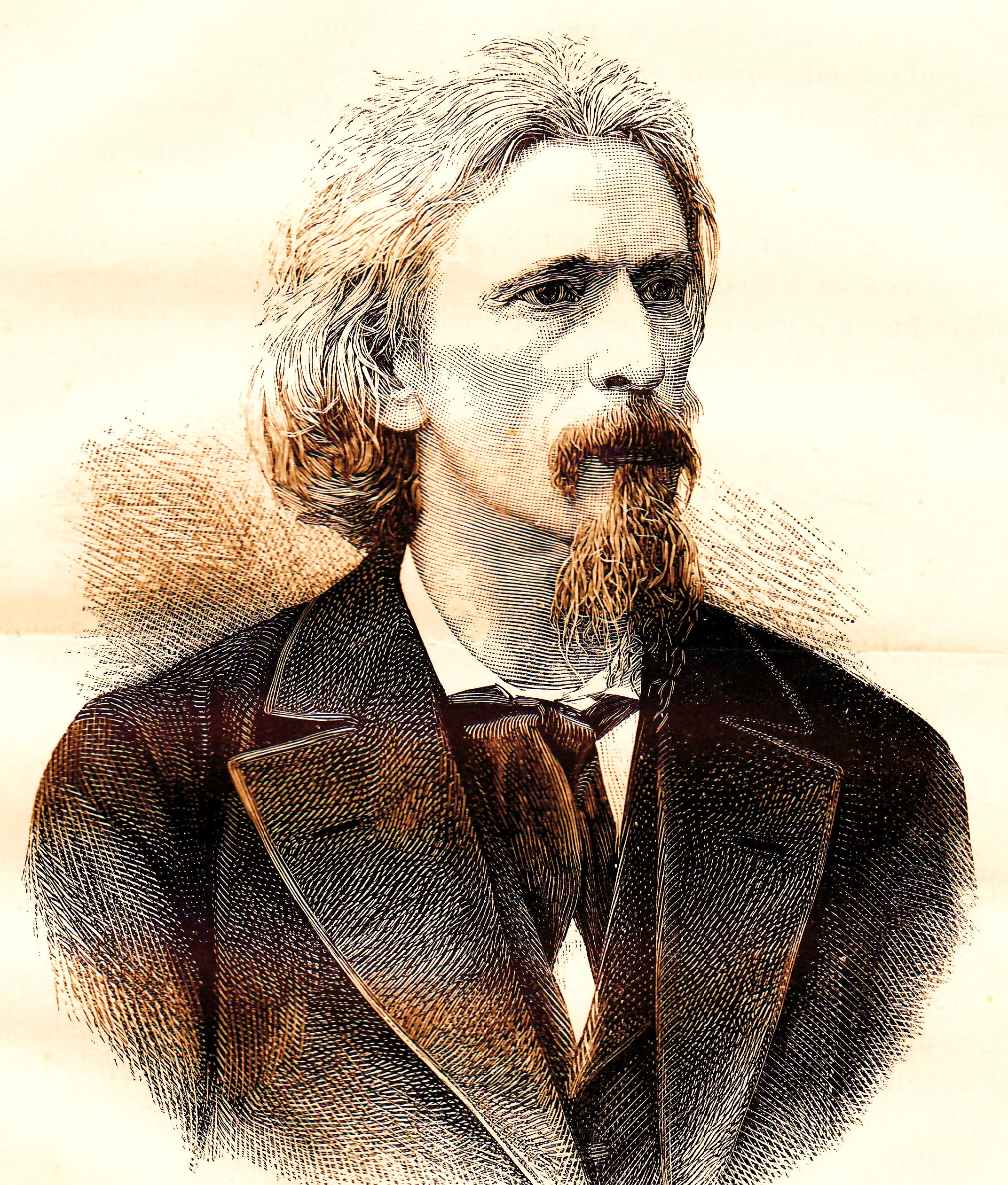 Daniel de Lange